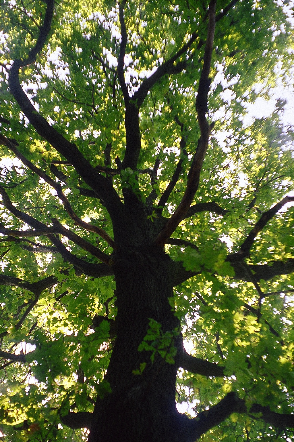 Photo Stefan Stojanović. Čačalica forest, Požarevac city, East Serbia.